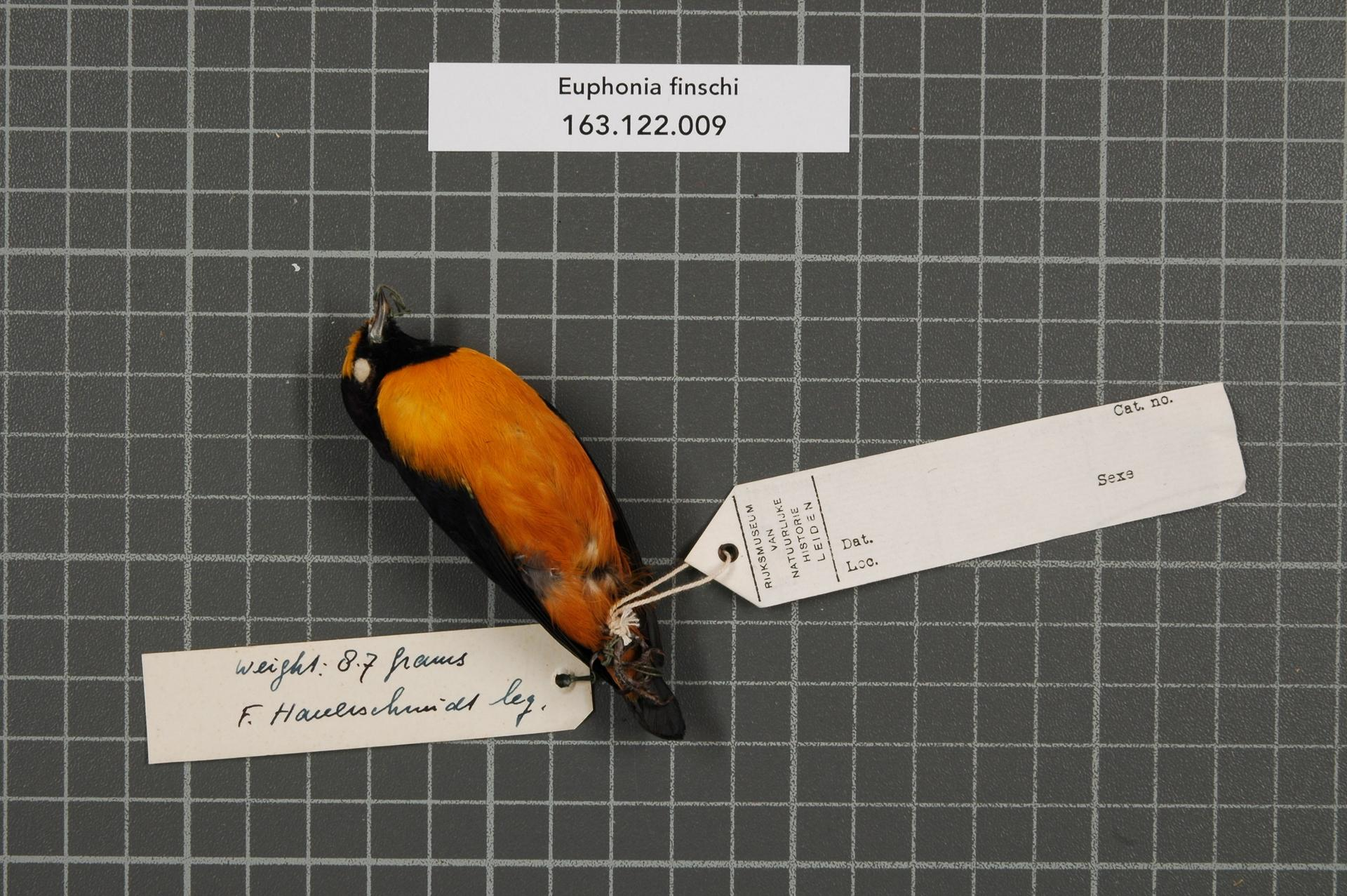 Euphonia finschi Sclater and Salvin, 1877